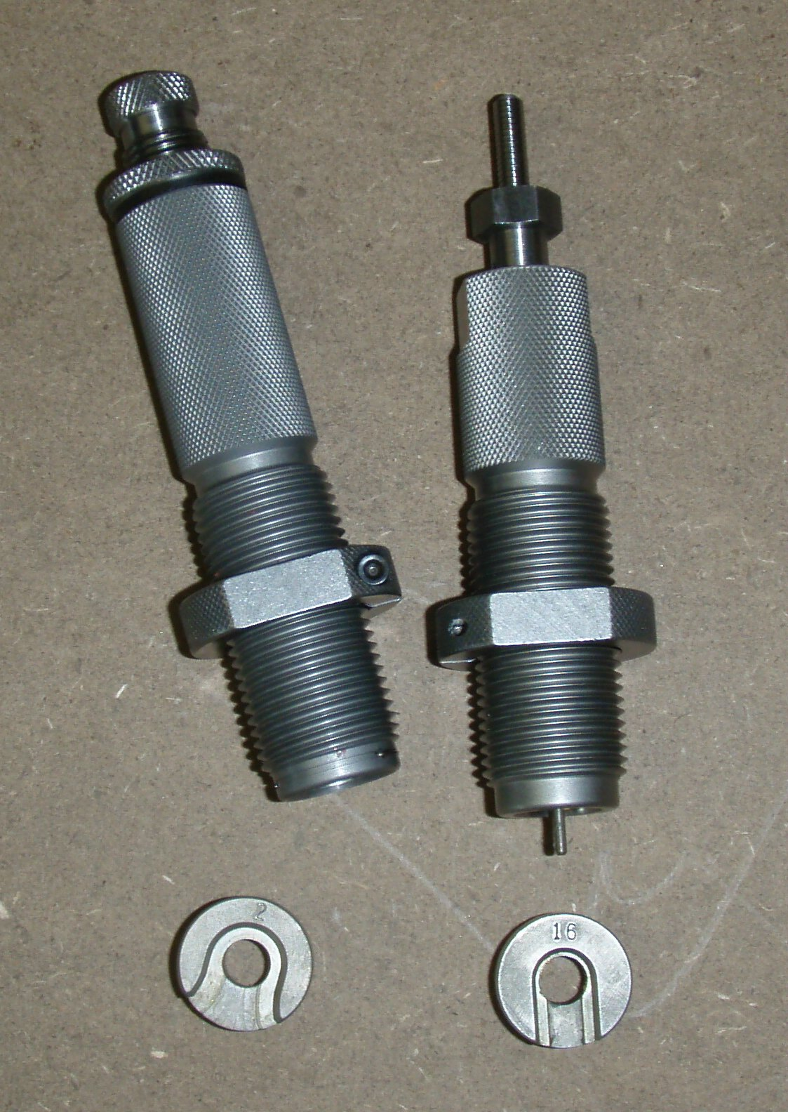 Ammunition Reloading dies for the 7.5mm Swiss (Schmidt-Rubin) cartridge